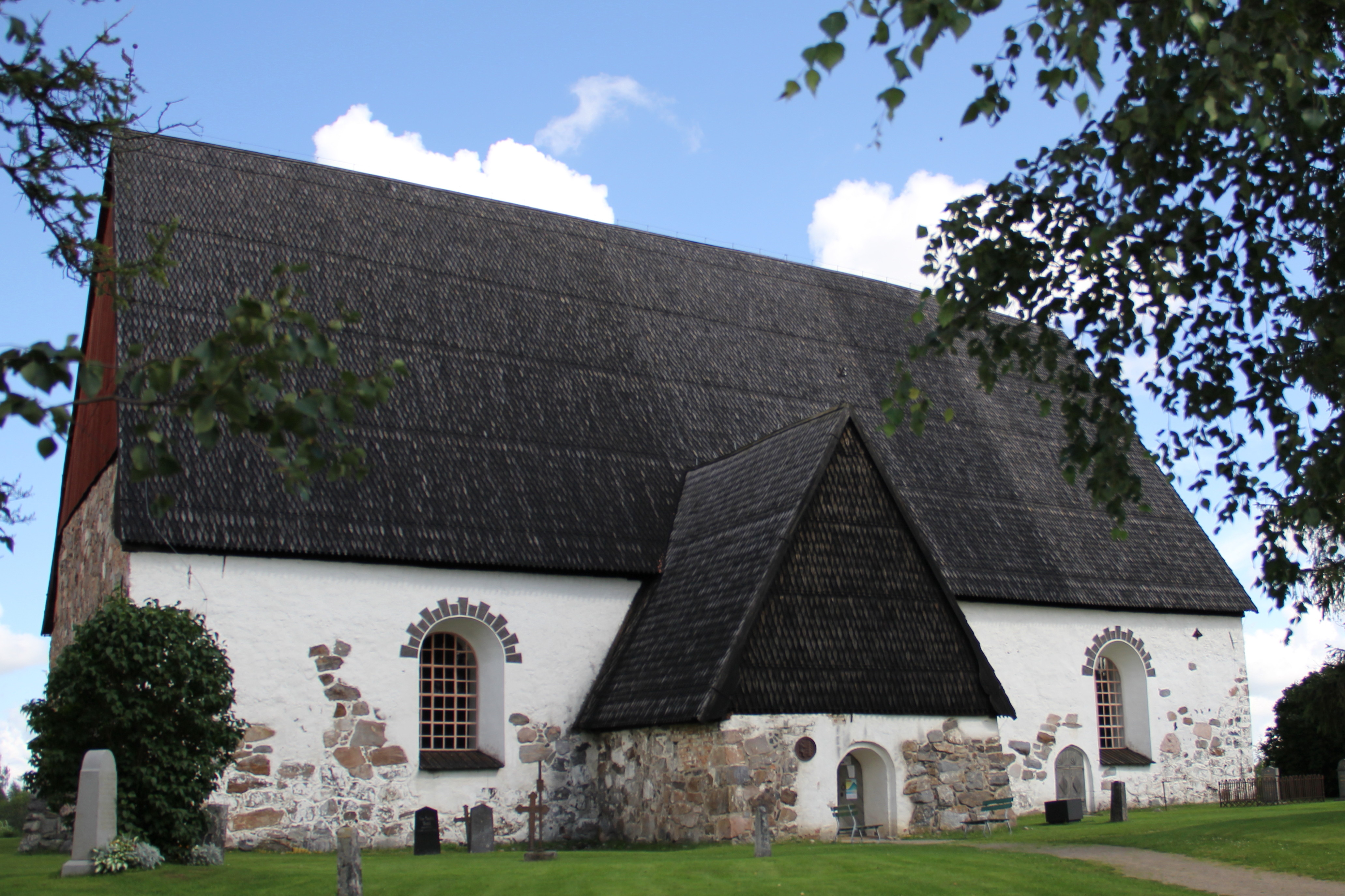 Isokyrö old church, Isokyrö, Finland. - Southern facade and church porch.